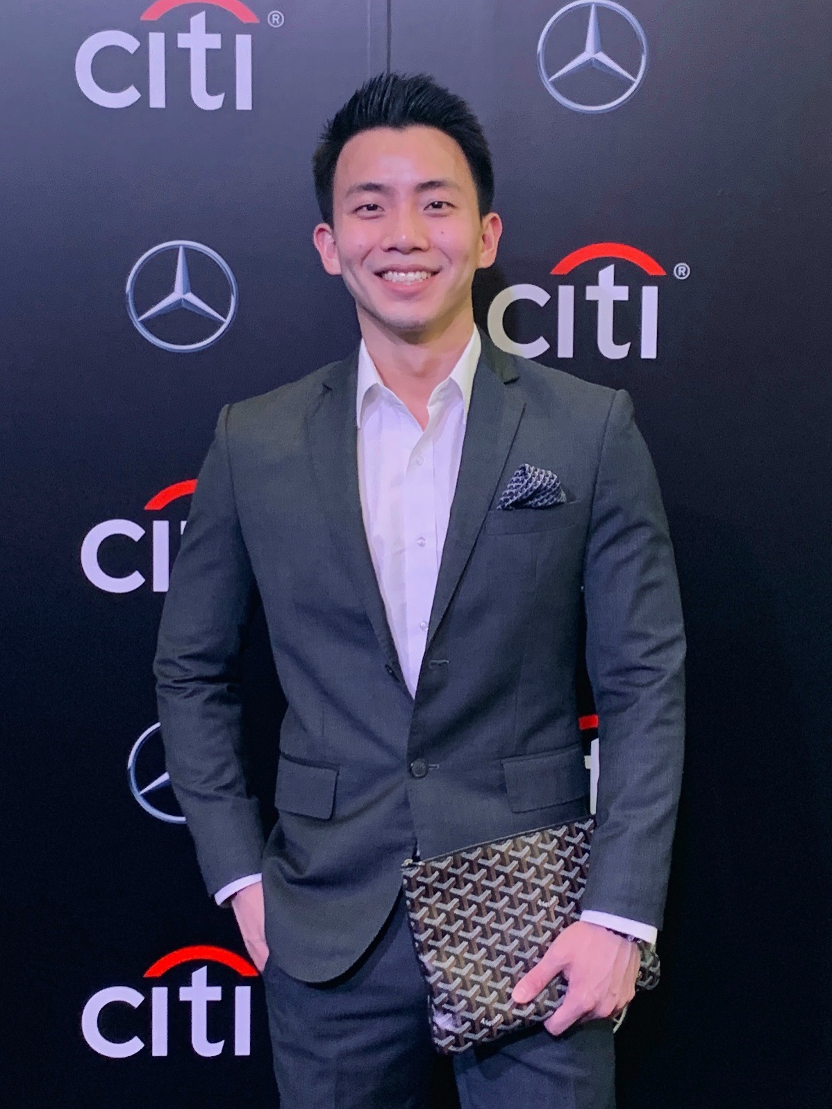 Suvicha Mekangkul at Citi Mercedes Event at Emquartier